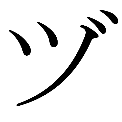 Katakana ヅ du